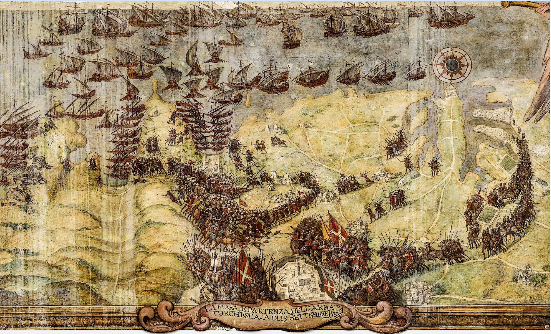 The Turks destroyed their camps and re-embarked their troops.